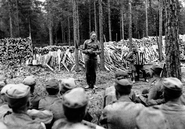 Einari Ketola Finnish actor